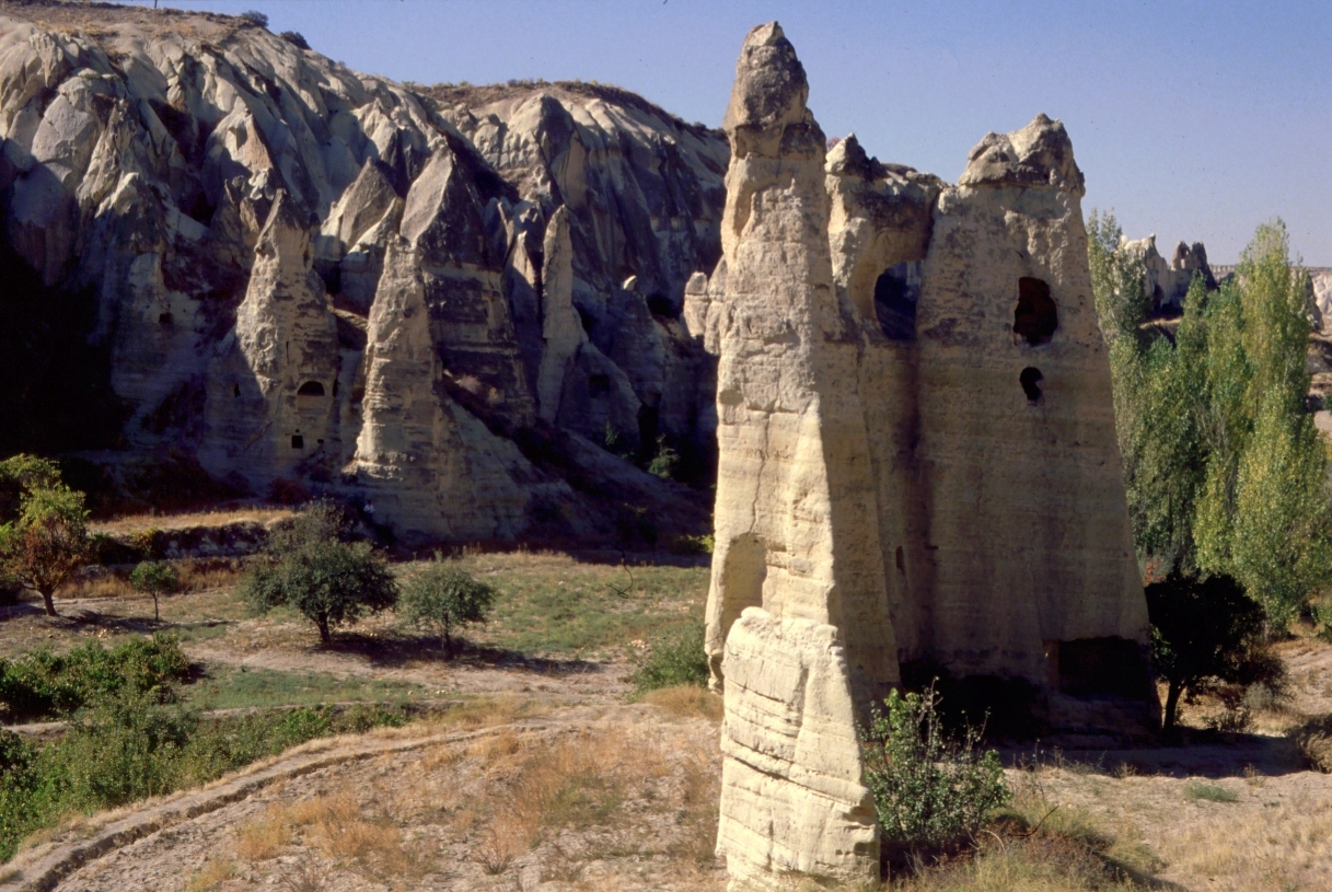 Rock formations and natural vegetation in Göreme National Park, Cappdocia, Turkey.